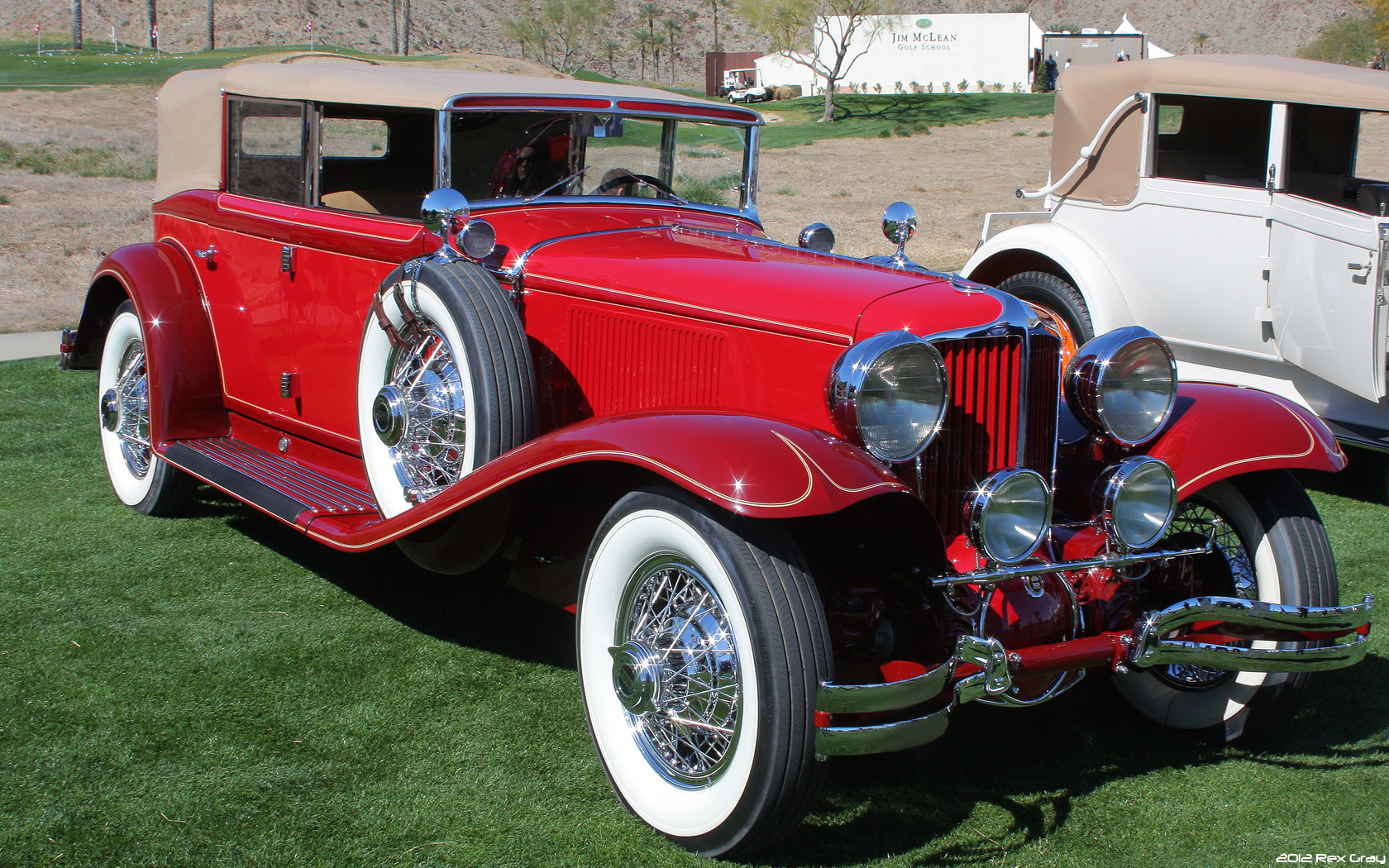 1930 Cord L29 Phaeton